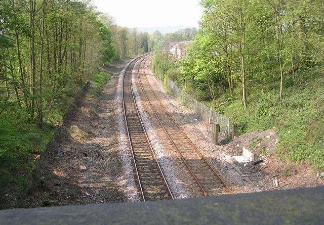 View from Bridge MRB-34 - Wakefield Road,Lightcliffe